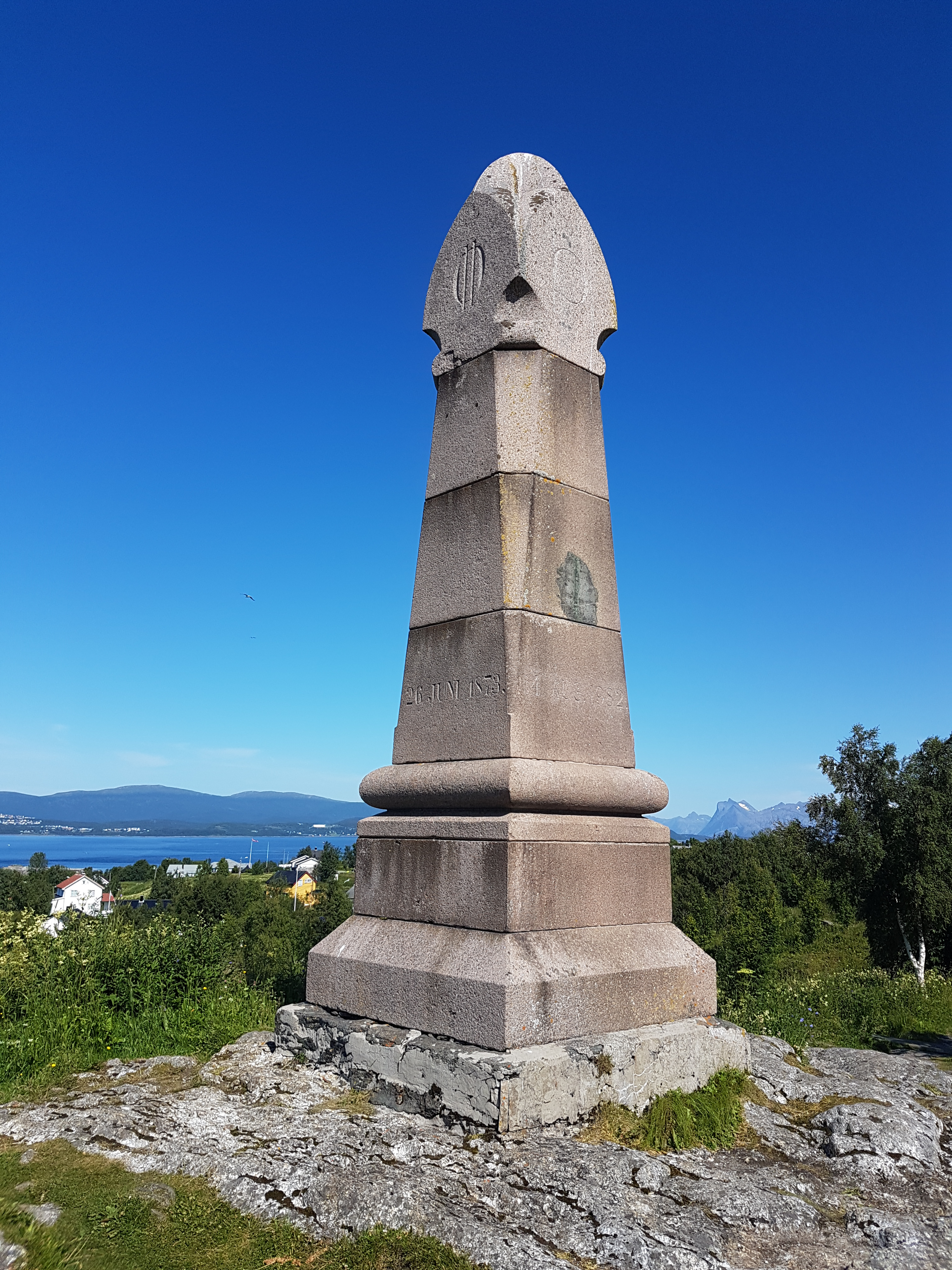 Saltstraumen king monument